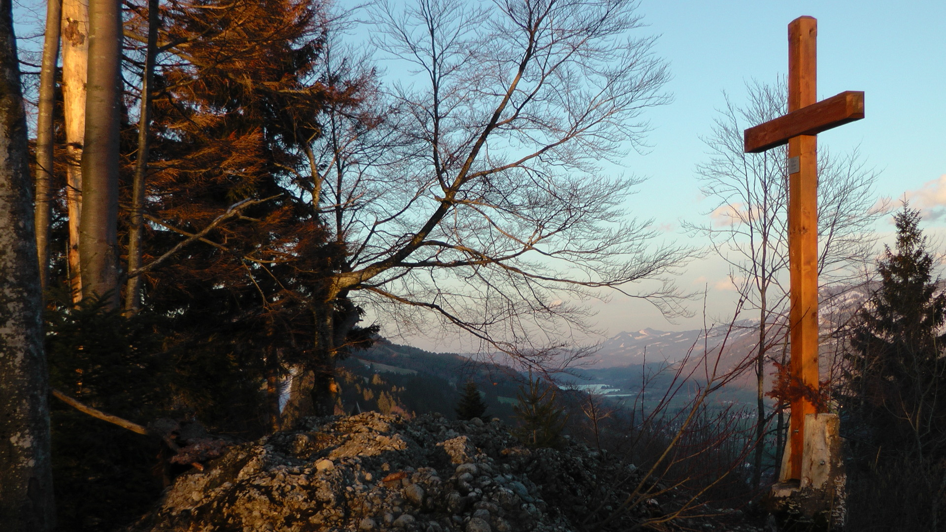 Summit of Staufner Berg. View to Großer Alpsee, part of Grünten, Prodelkamm